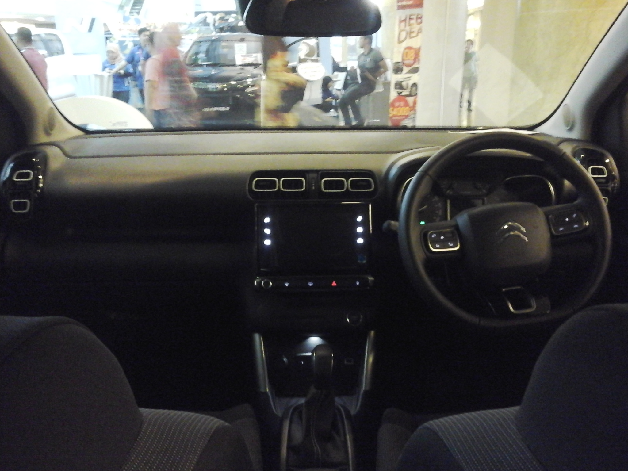 2020 Citroën C3 AIRCROSS interior. Photographed in BIBD car roadshow end-of-year 2019, The Mall Gadong, Brunei.